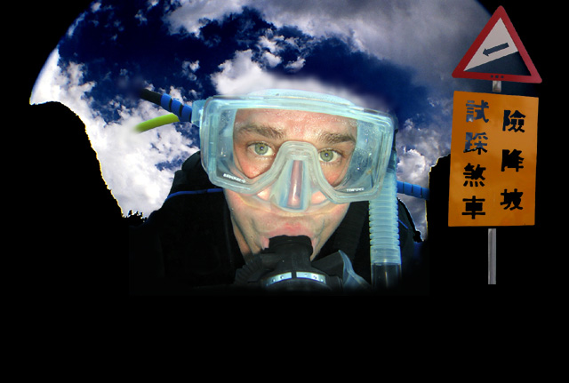 Laurent Caille alias UXAR en instructeur de plongée sous-marine